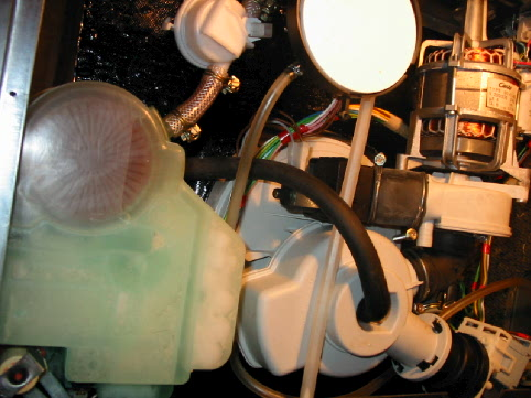 Dish-washing machine from the inside. Candy A9004 Smart.